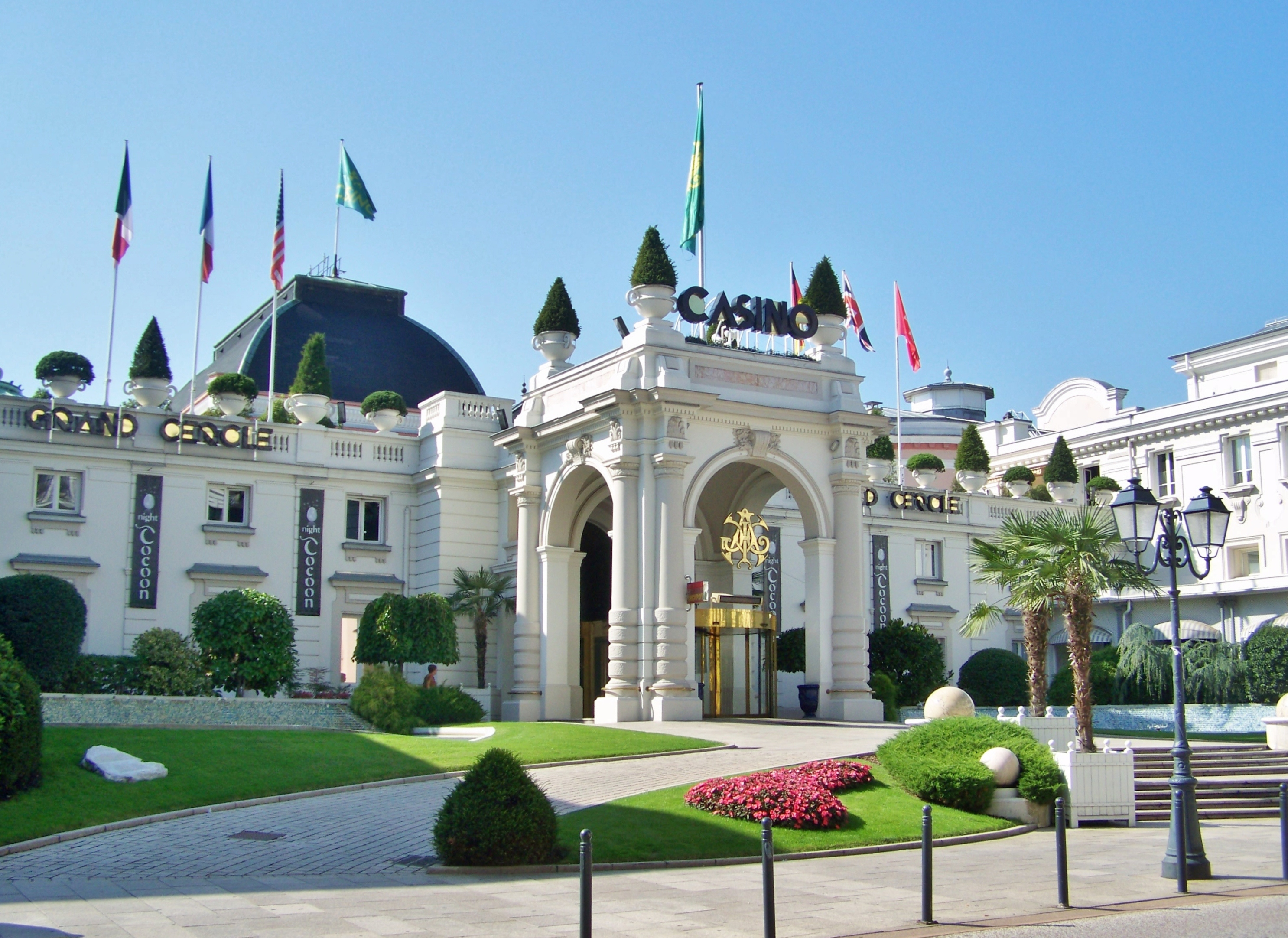 Sight of Palais de Savoie palace, hosting city of Aix-les-Bains casino in Savoie, France.